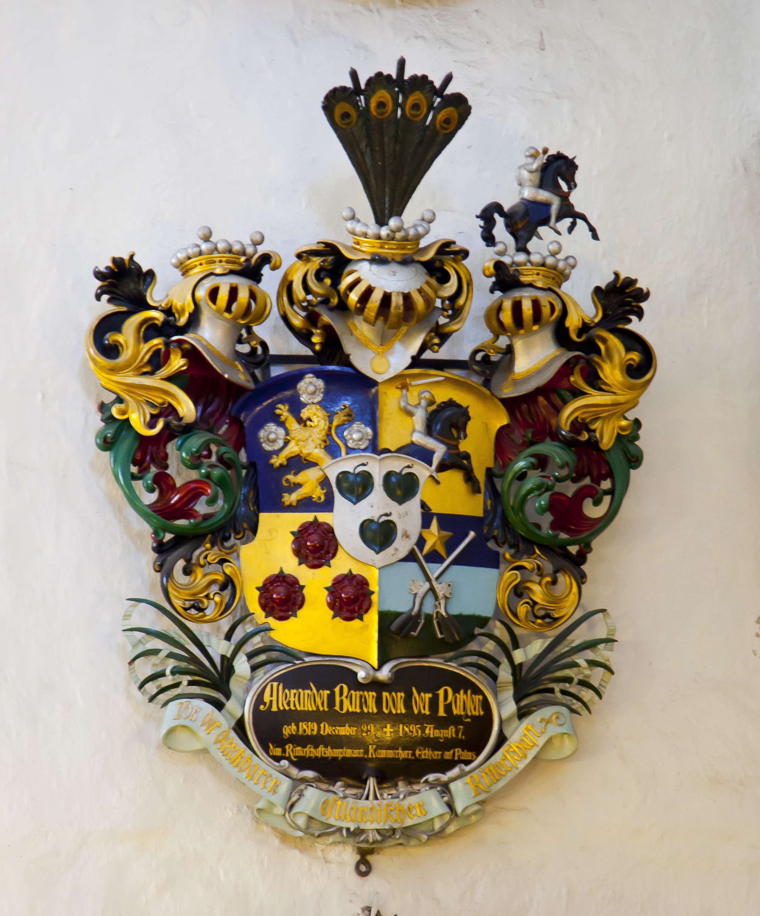 Cathedral of Saint Mary, Tallinn, Estonia